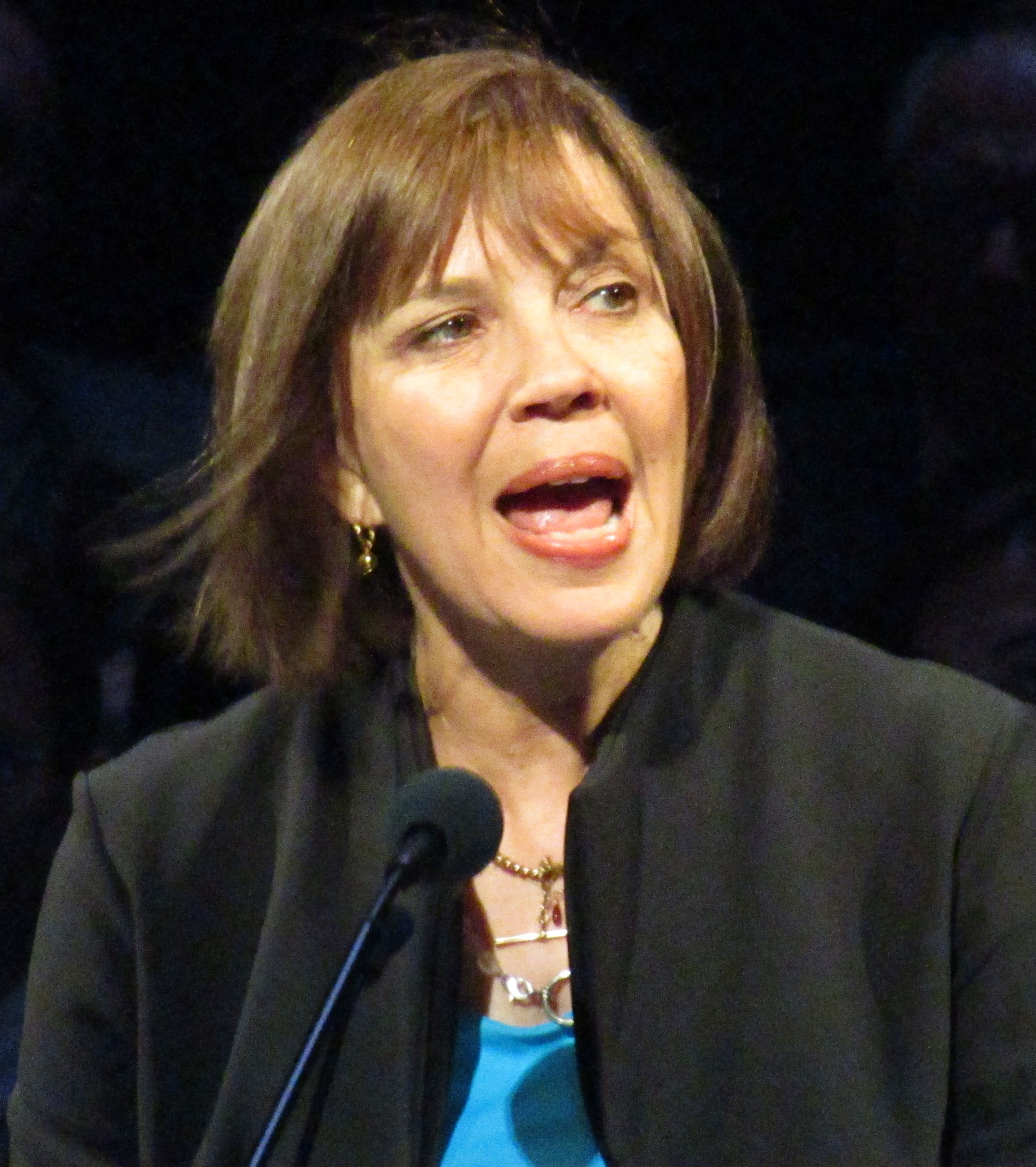 Judy Miller speaking at a BYU devotional.